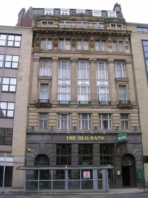 The Old Bank - Market Street. This is now a bar.